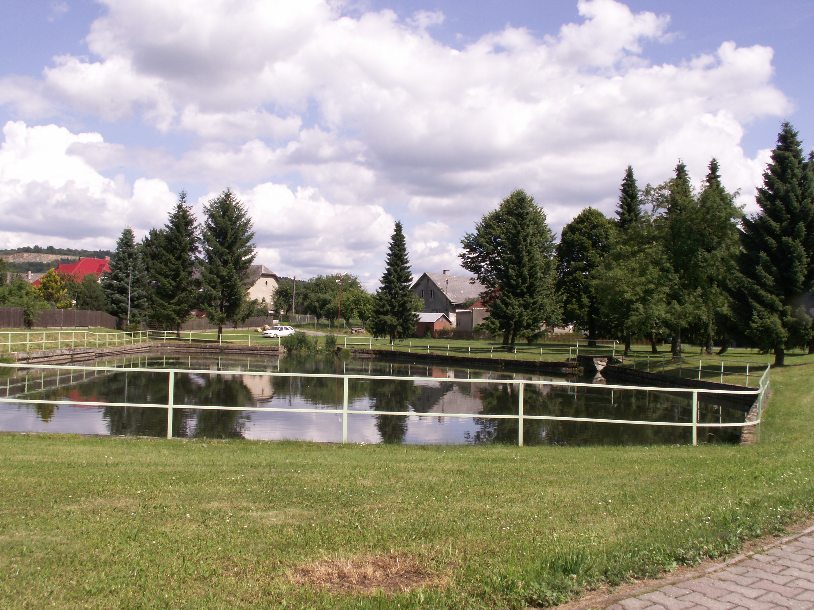 KONICA MINOLTA DIGITAL CAMERA, požární nádrž v obci Bezděkov, okres Havlíčkův Brod